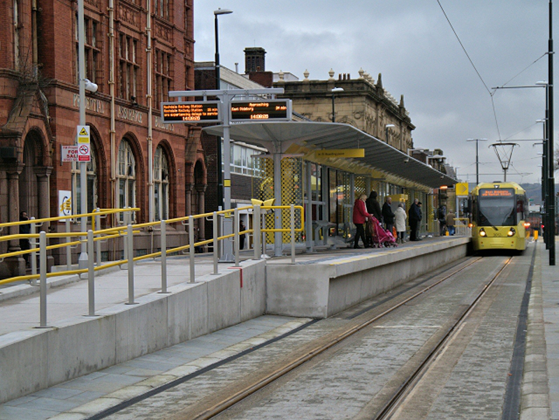 Metrolink, Oldham Central Manchester-bound Metrolink tram number 3012 arrives at the Oldham Central tram stop on Union Street.